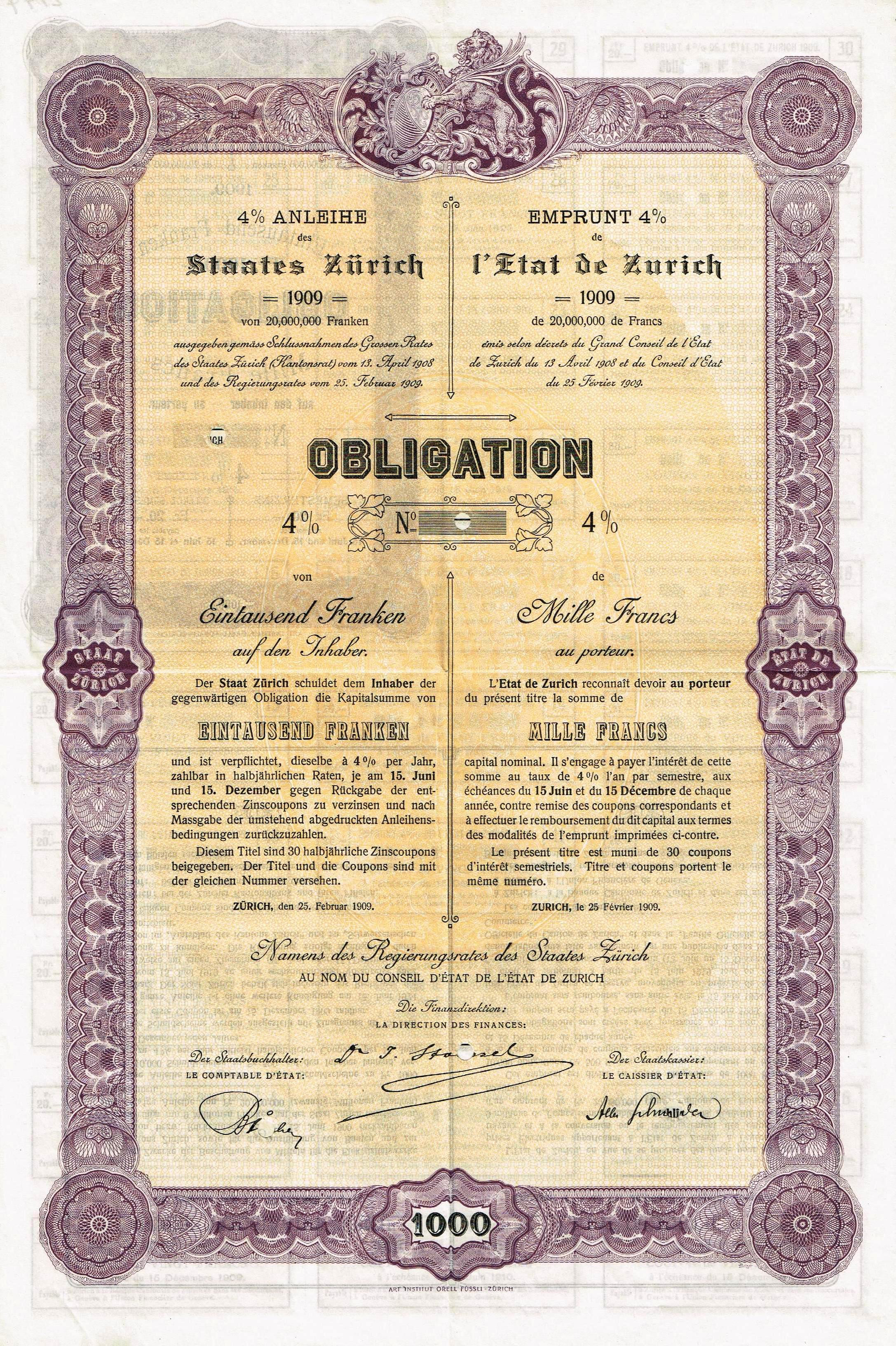 Bond of the state Zurich (canton), issued 25. February 1909